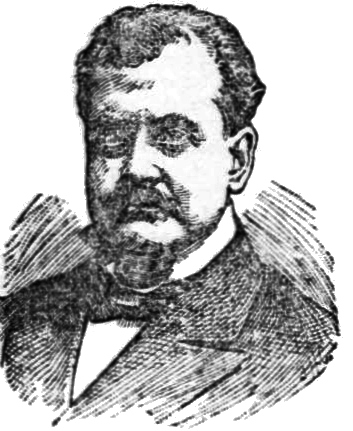 1890s-era illustration of De Benneville Randolph Keim, a Pennsylvania native who became a noted journalist and confident of Ulysses S. Grant, U.S. General of the Armies (Union) during the American Civil War, a relationship which continued when Grant became the 18th President of the United States. His newspaper byline was frequently published as "De B. Keim".